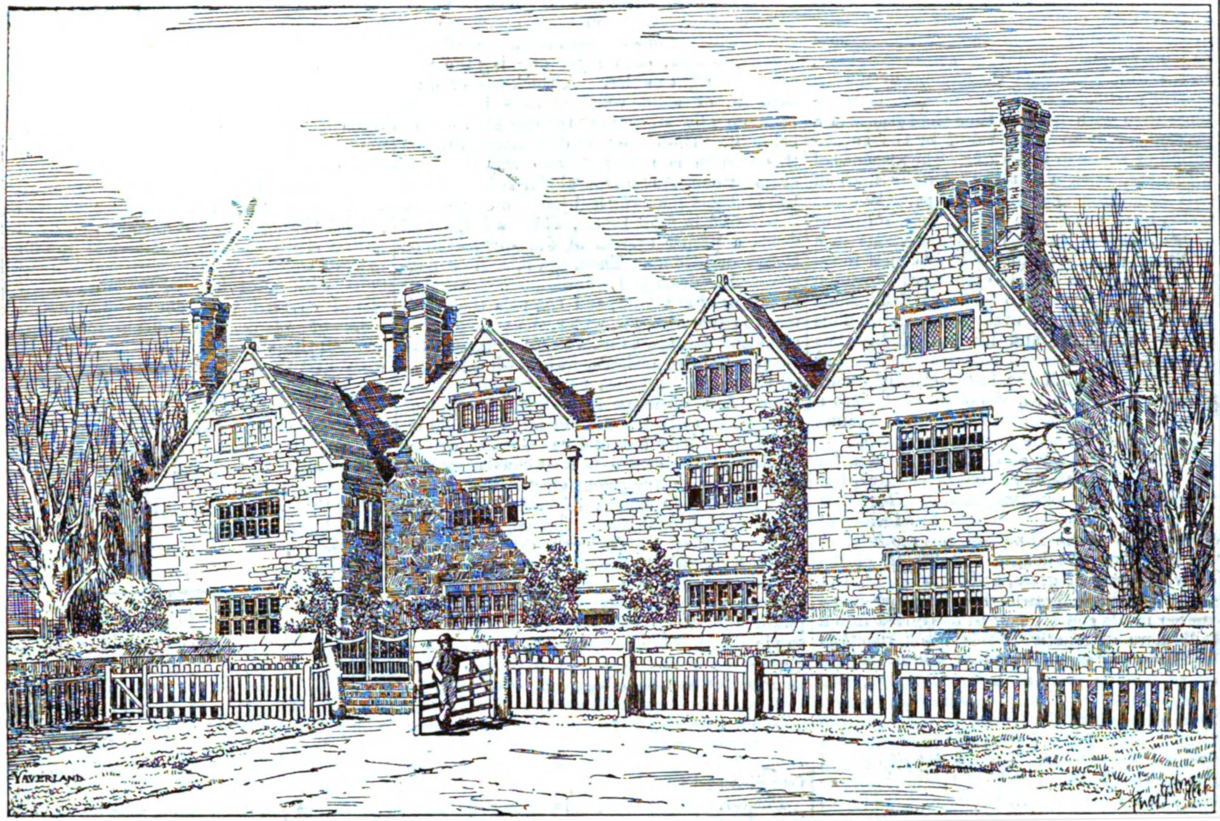 Line drawing of Yaverland Manor House, which is located near Sandown, on the Isle of Wight, taken from the trae publication The Builder, 19 September 1891, found in Volume 61